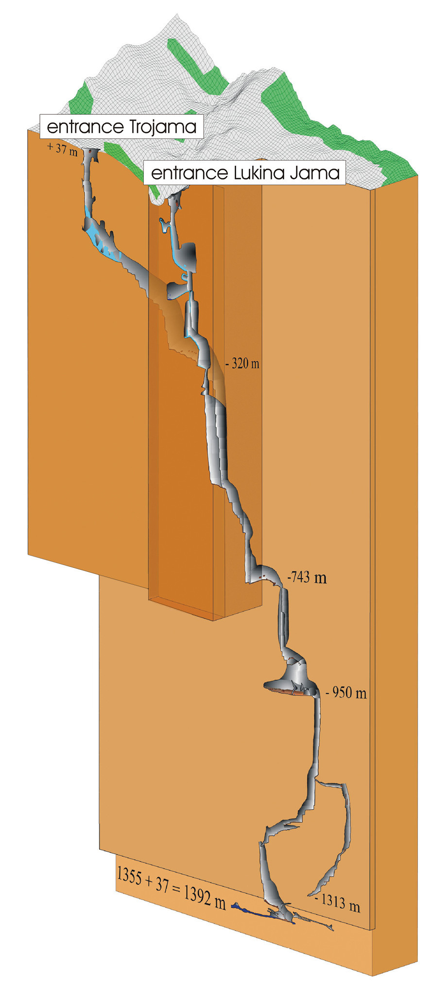 The Lukina Jama–Trojama cave system. Overview of the geographical position and 3D cave cross-section. Modified from File:File:The Lukina Jama–Trojama cave system - SubtBiol-011-045-g001.jpg